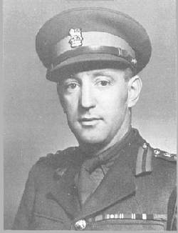 Colonel J.E.G. Paul Mathieu, DSO, ED